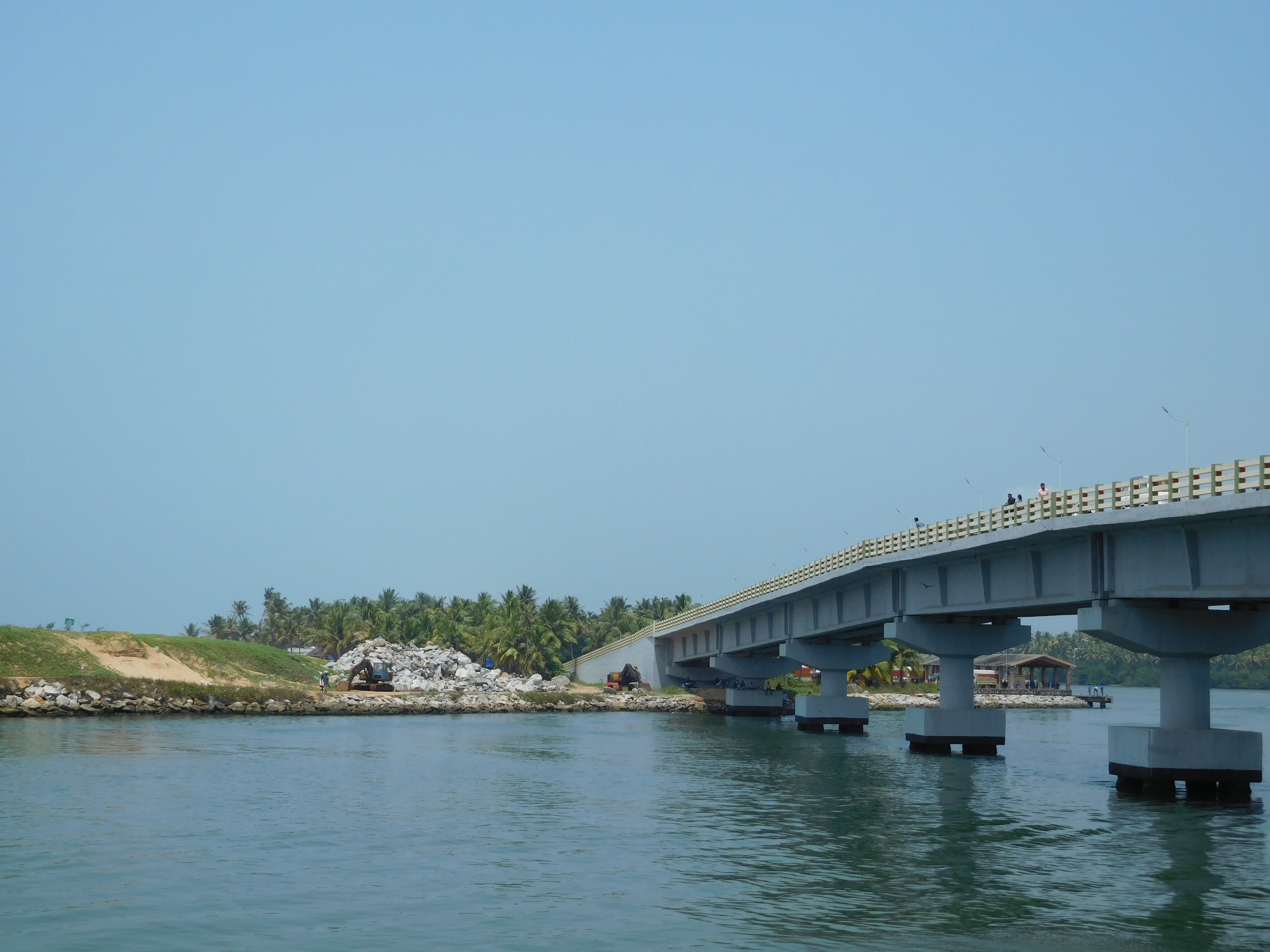 Bridge connecting Perumathura and Thazhampally in Kerala, India